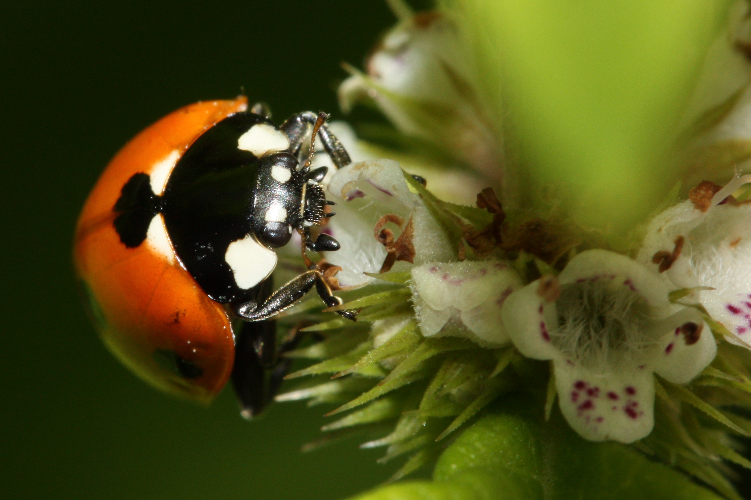 Drinking nectar or dew drops